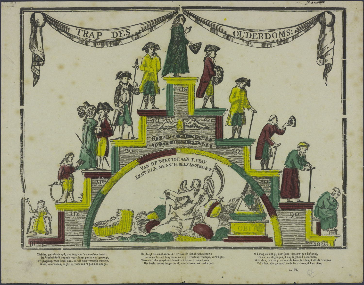 De trap des ouderdoms; published by Glenisson en Zonen